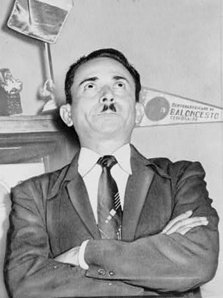 Carlos Castillo Armas, published in LIFE magazine on Jun 14, 1954